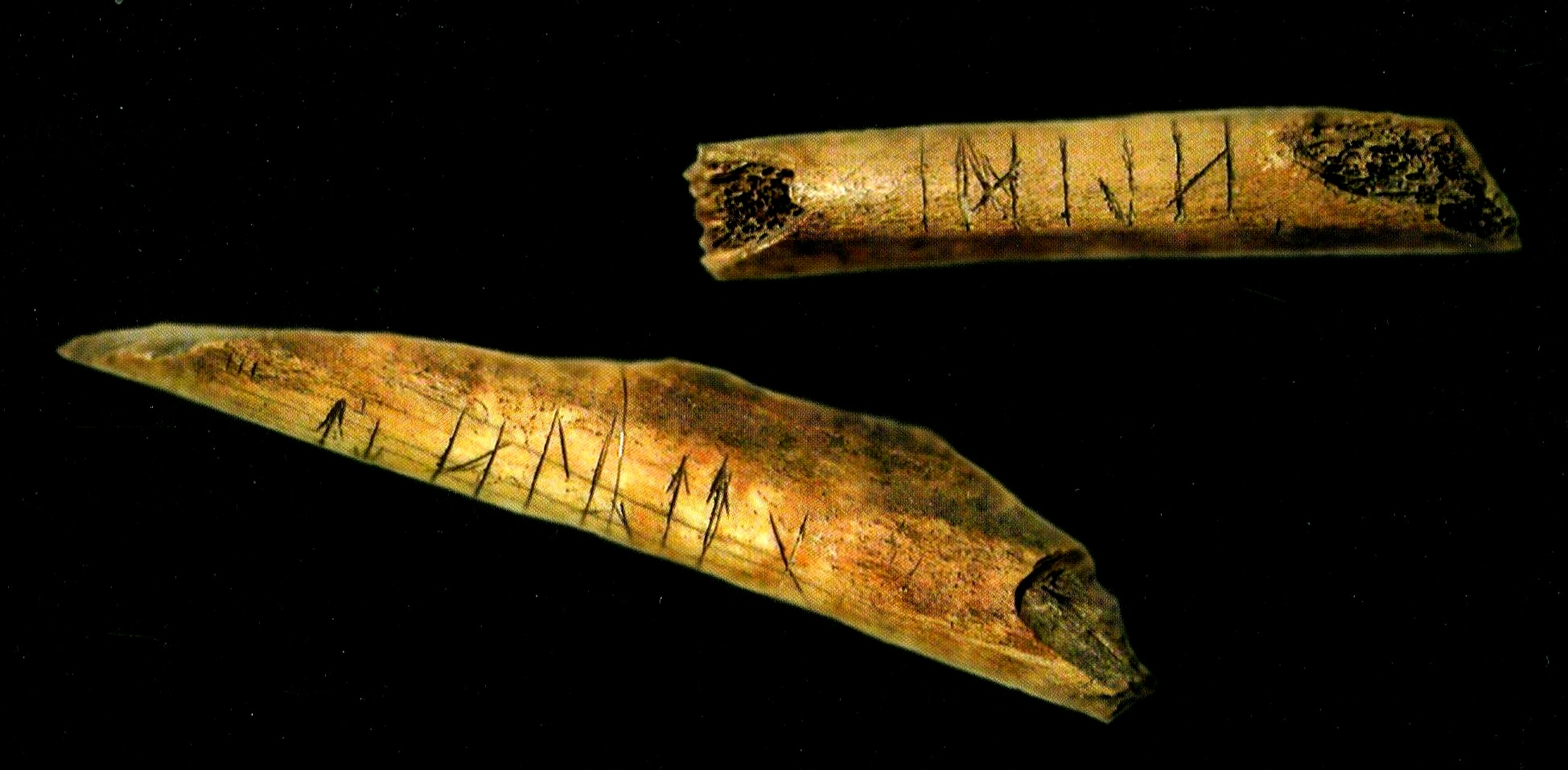 RUNIC-CUTS ON BONES. 12 - early 13th с. The hill-fort Maskavichy, Polatsk district, Vitsiebsk region.